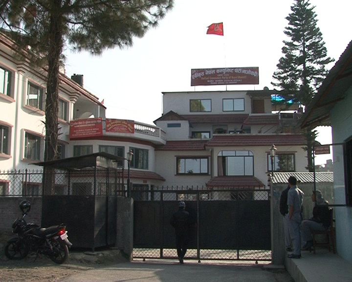 cpn maoist building